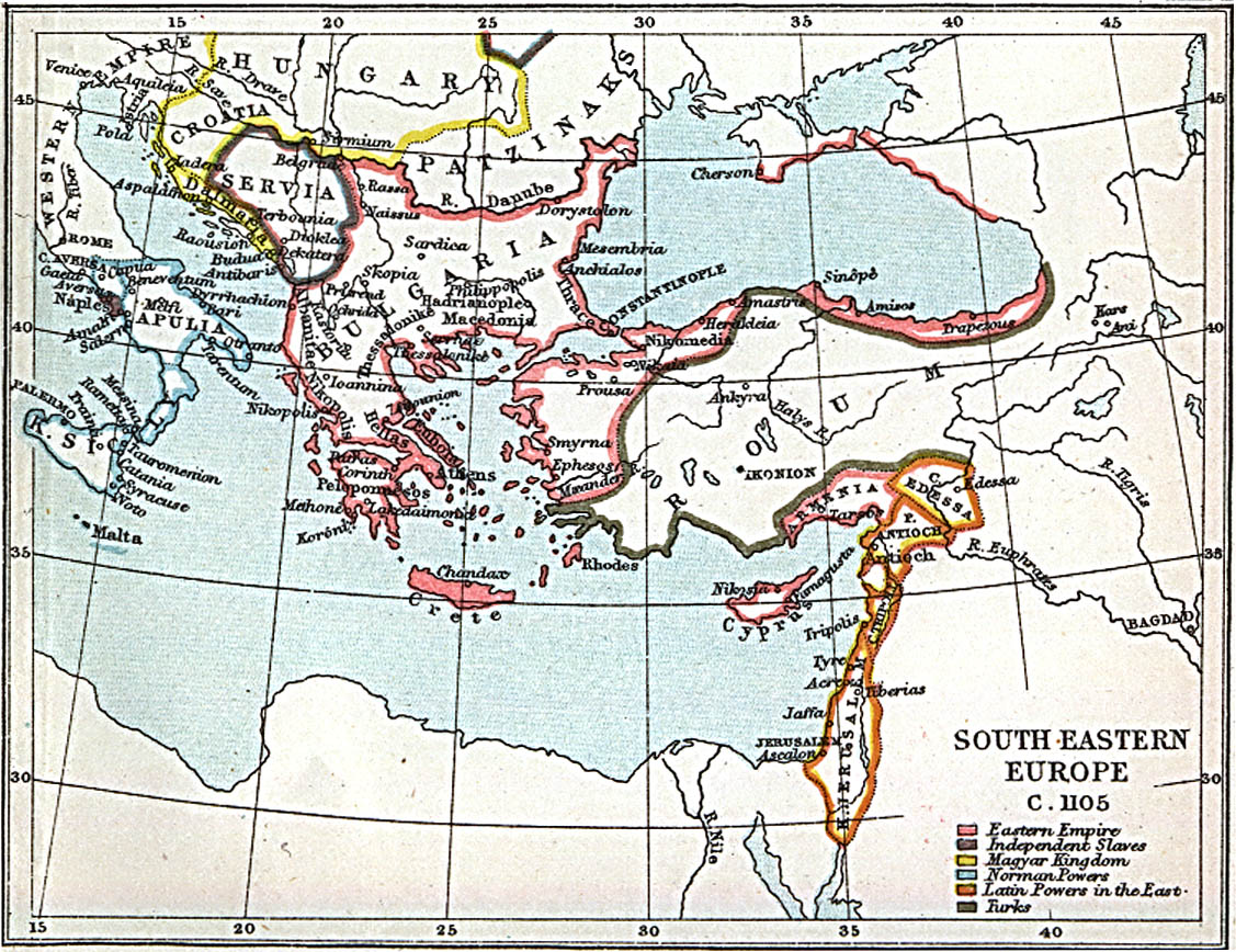 Map of south-eastern Europe and the Levant in 1105 AD.